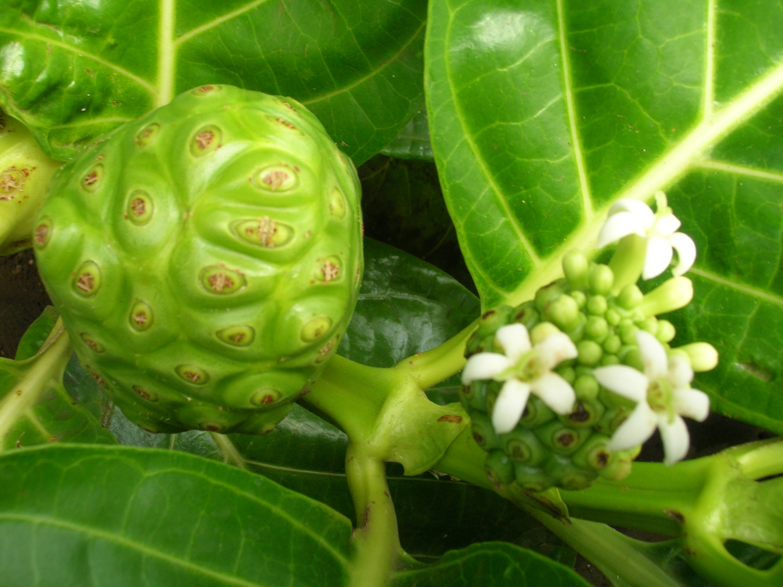 Morinda citrifolia (leaves fruit and flowers). Location: Maui, Hoolawa Farms